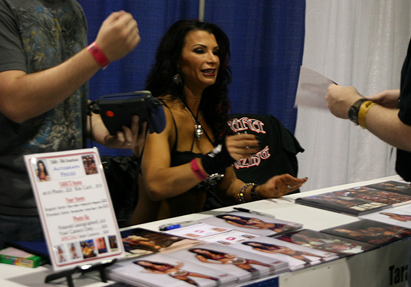 TNA knockout Tara/WWE Diva Victoria